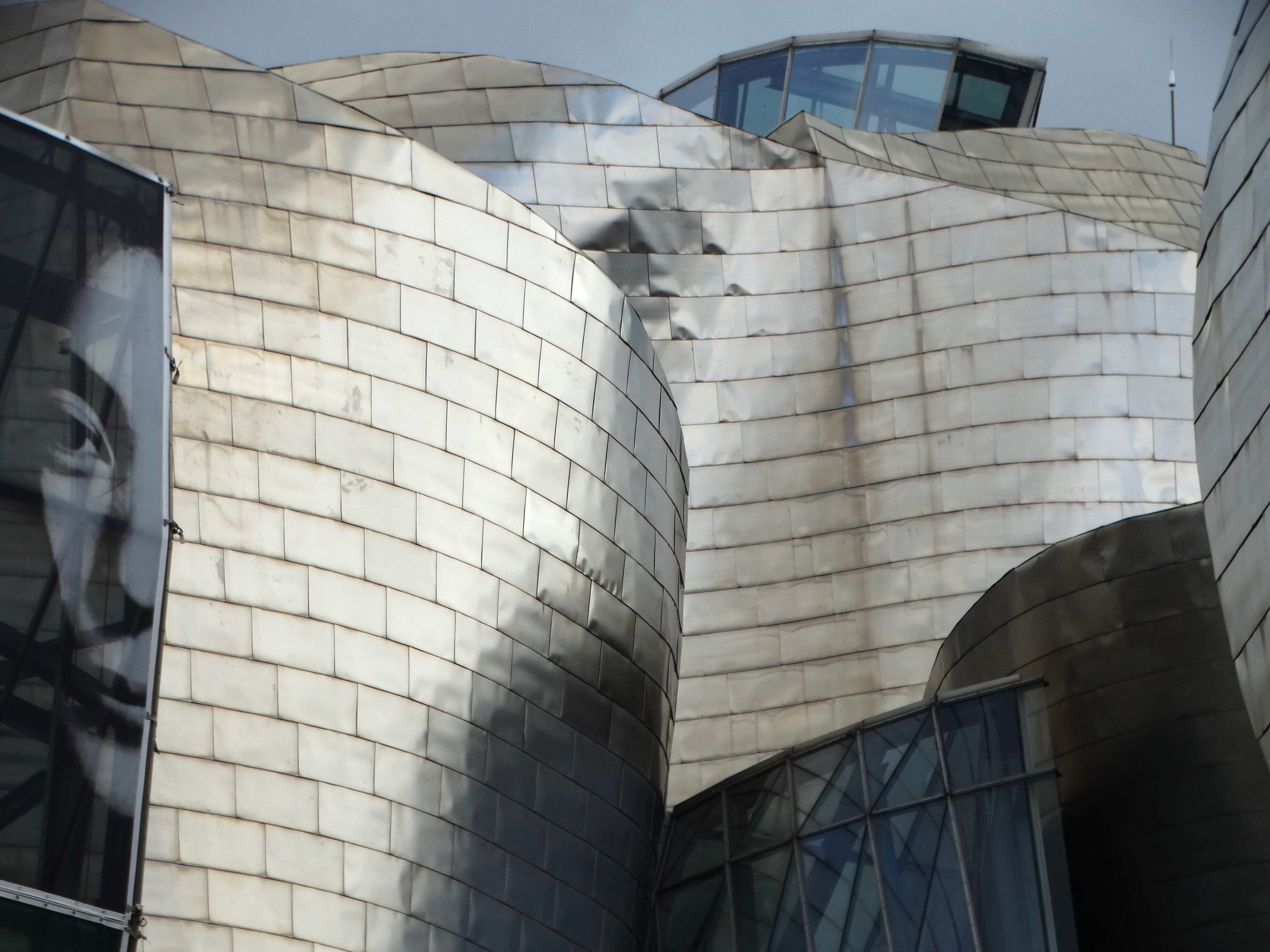 Detail of Facade of Guggenheim Museum with Yoko Ono Banner - Bilbao - Biscay - Spain